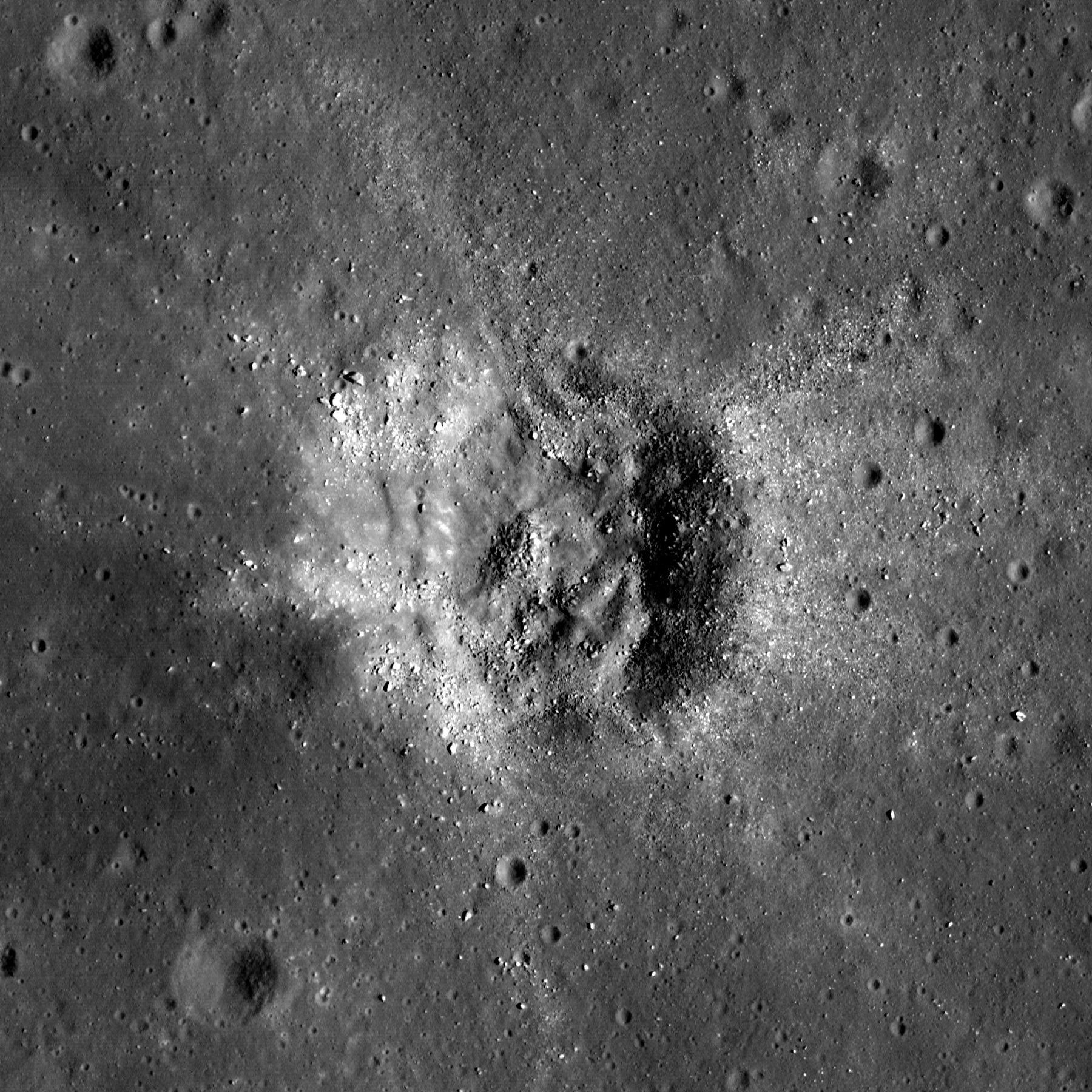 West crater, Mare Tranquillitatis, the moon.